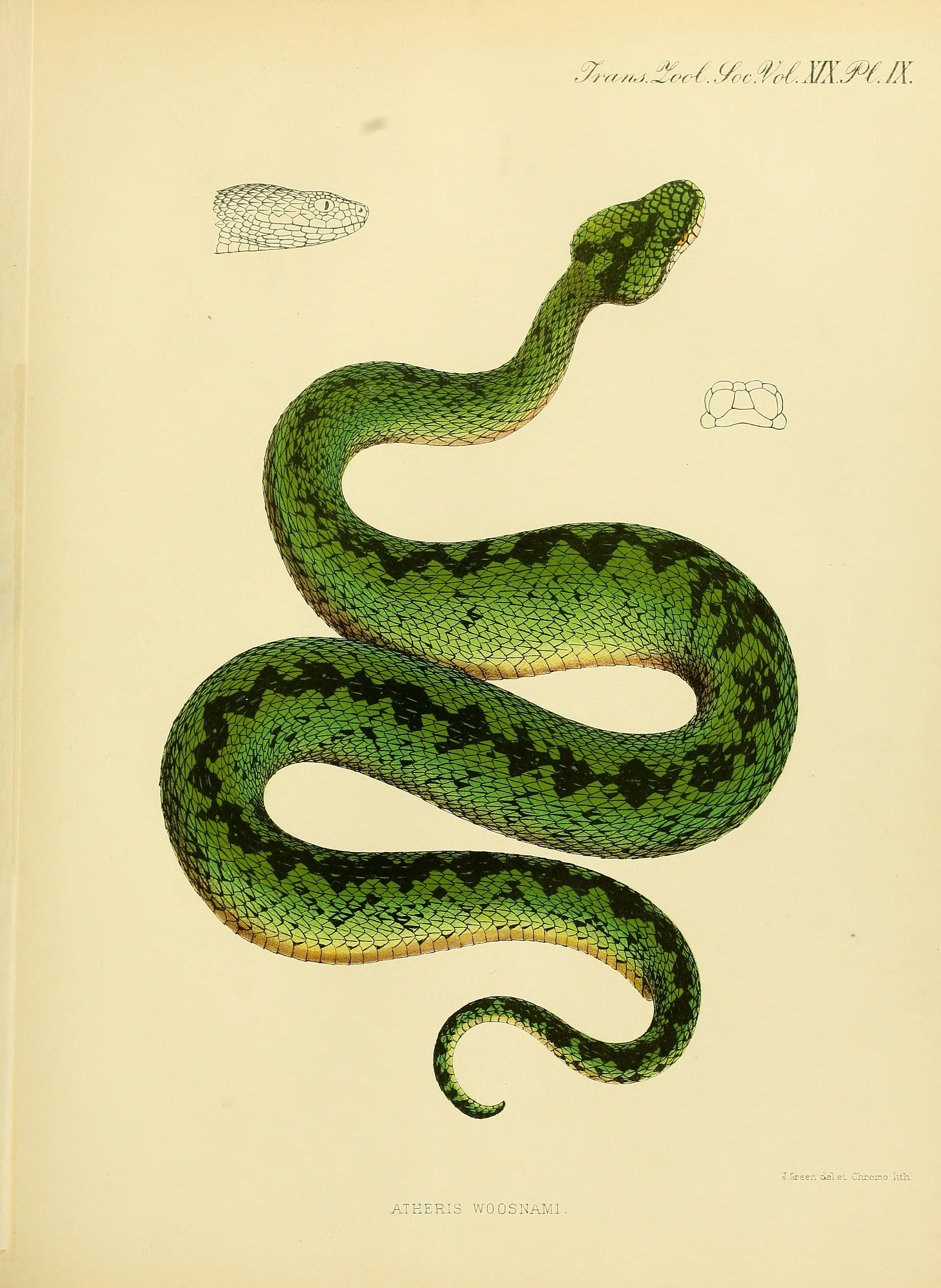 Plate IX. Atheris nitschei syn. A. woosnami, female, with side view of head and enlarged view of end of snout.